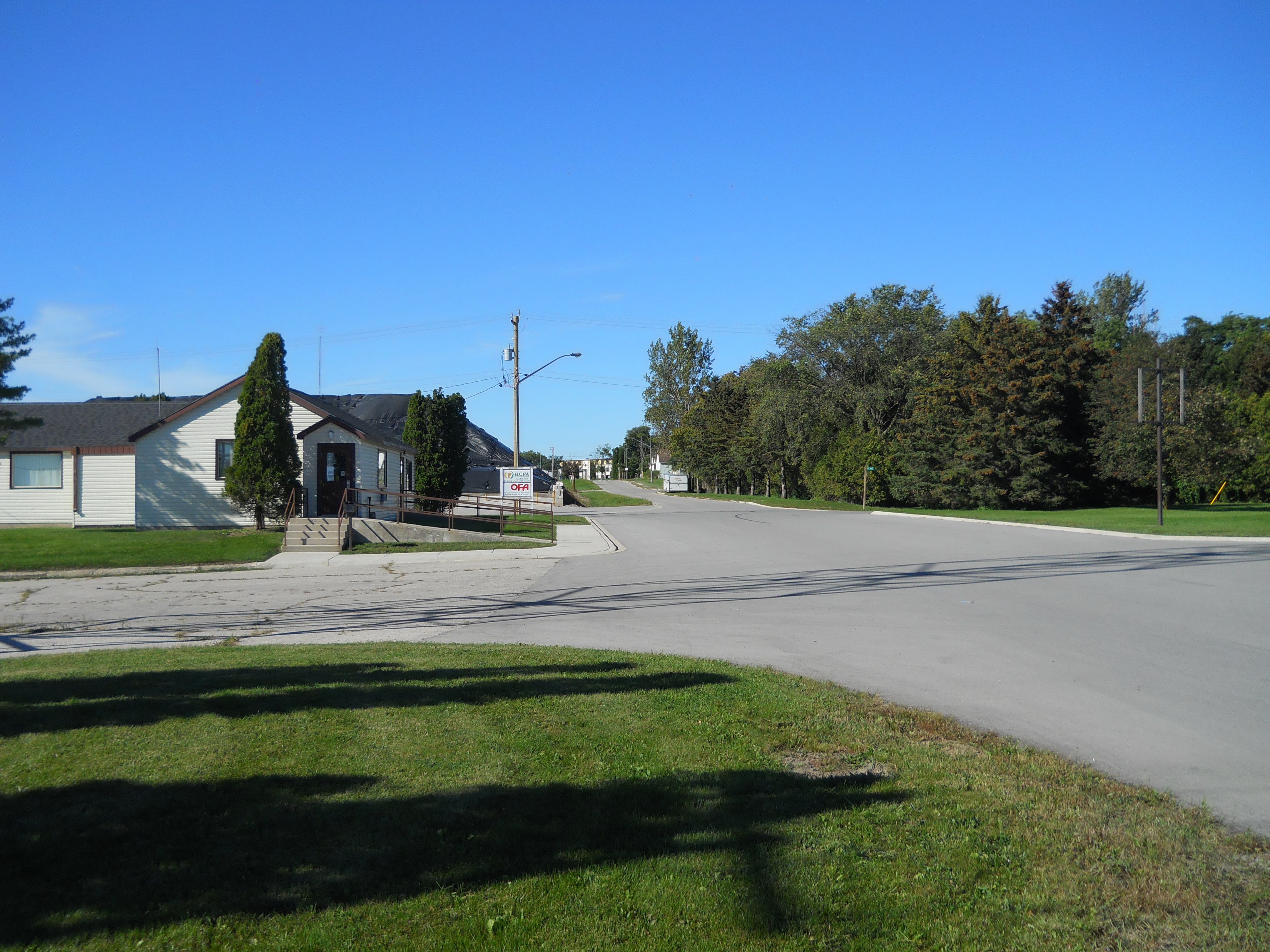 View looking north from Vanastra Road along 3 Street. Abandoned barracks building in the background